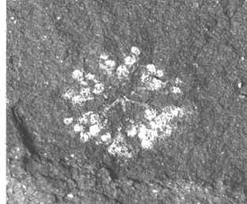 A single fertile whorl of Hexachara riniensis, from the Waterloo Farm lagerstätte in the Eastern Cape, South Africa.